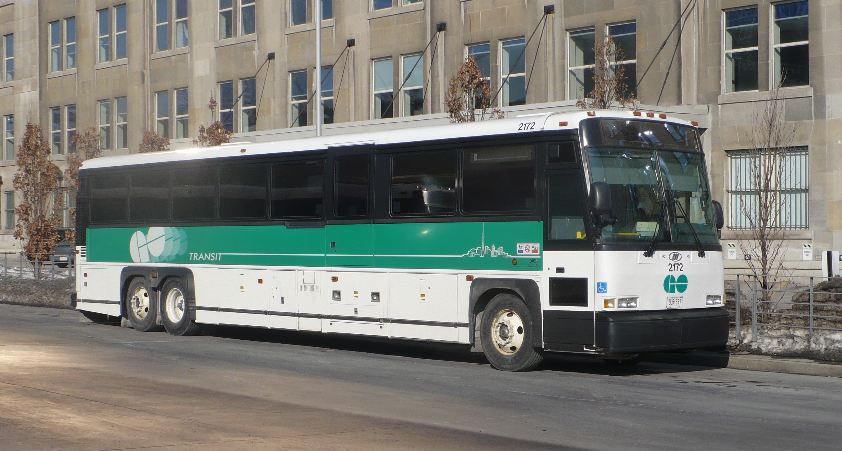 GO Bus 2172, gleaming in the sun at Union Station Bus Terminal